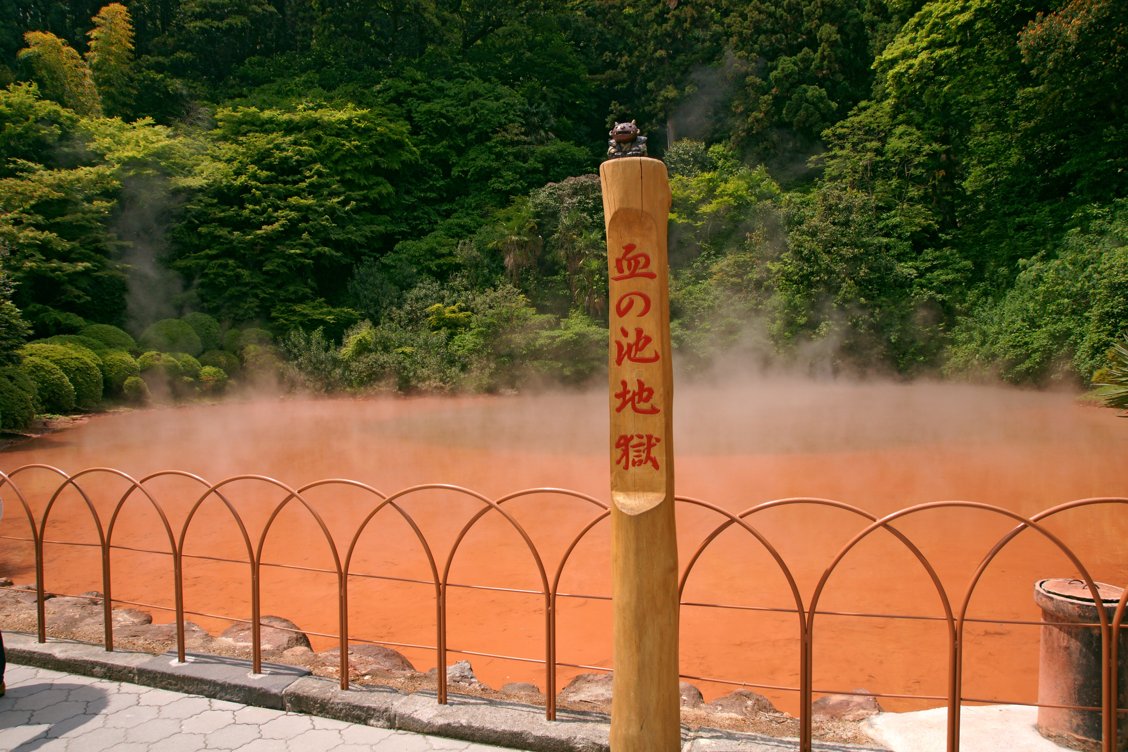 Chinoike Jigoku of Beppu Jigokumeguri, Beppu, Oita prefecture, Japan